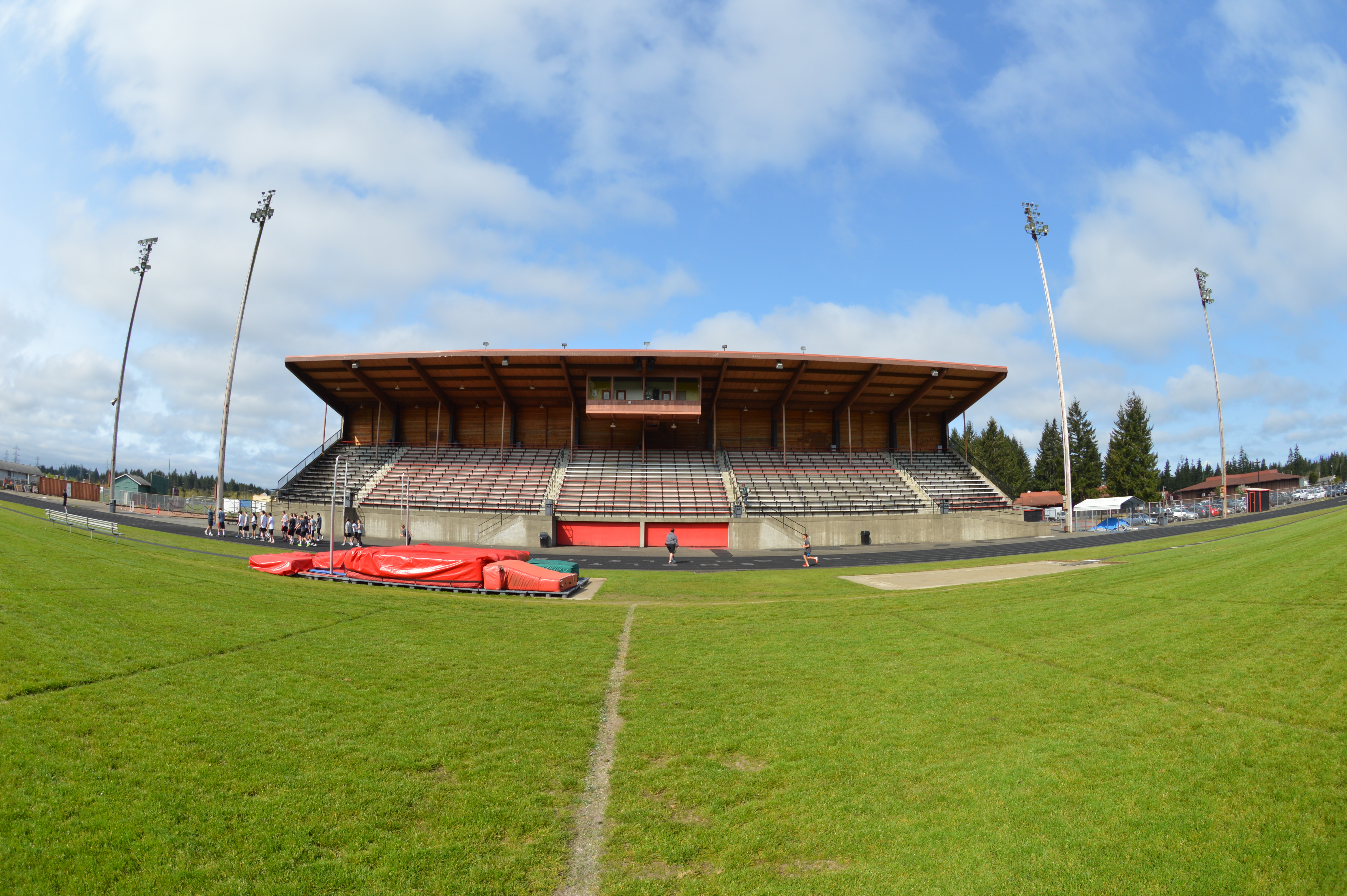 Jack Stark Field at Highclimber Stadium. Home of Shelton Highclimber Football, Soccer, and Track & Field. - Shelton, WA, USA.